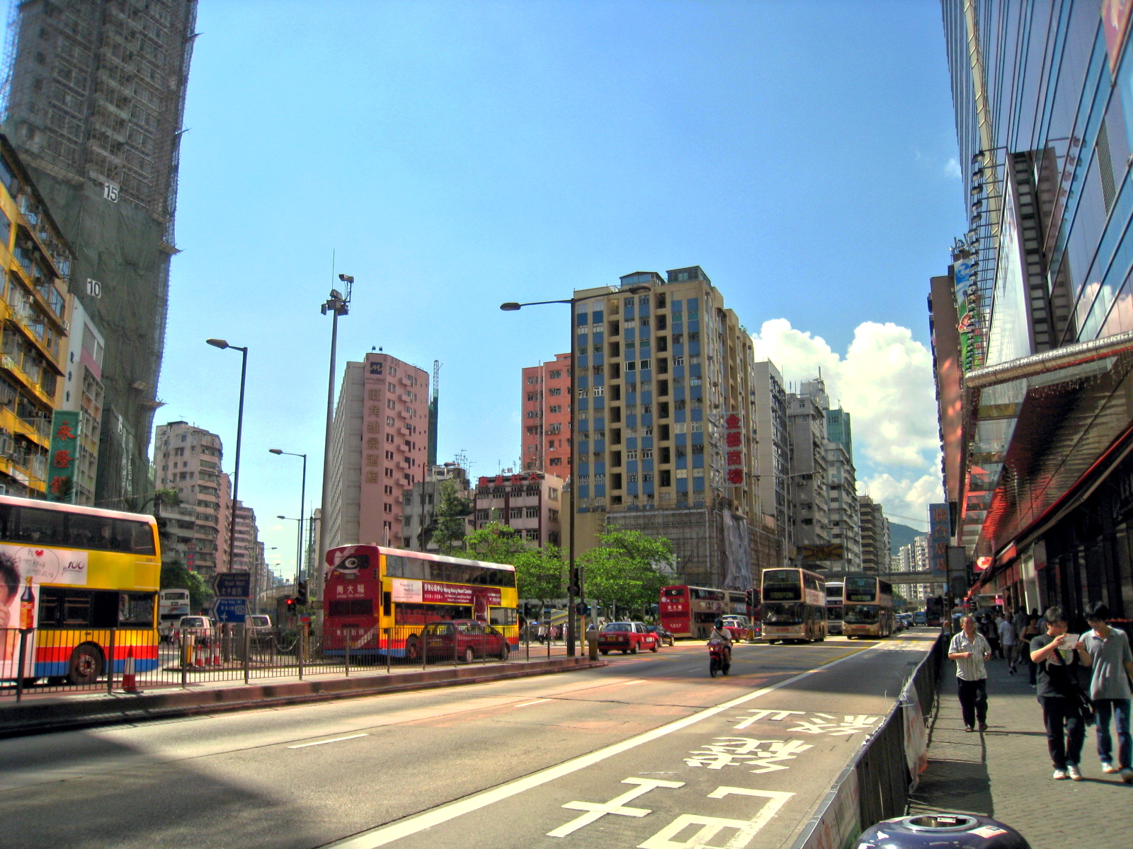 Nathan Road Near Prince Edward